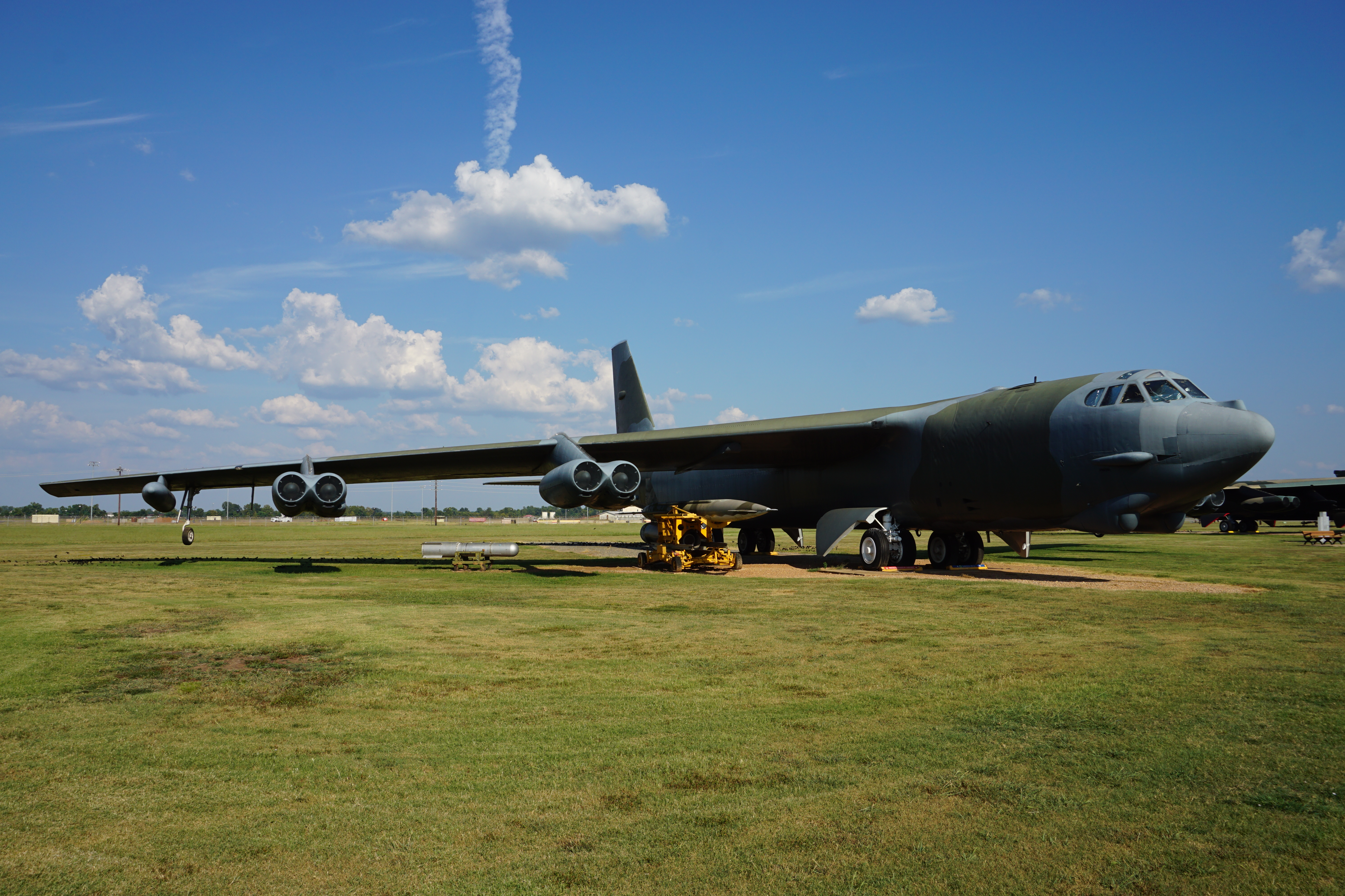 A Boeing B-52G Stratofortress on display at the Barksdale Global Power Museum at Barksdale Air Force Base near Bossier City, Louisiana (United States).